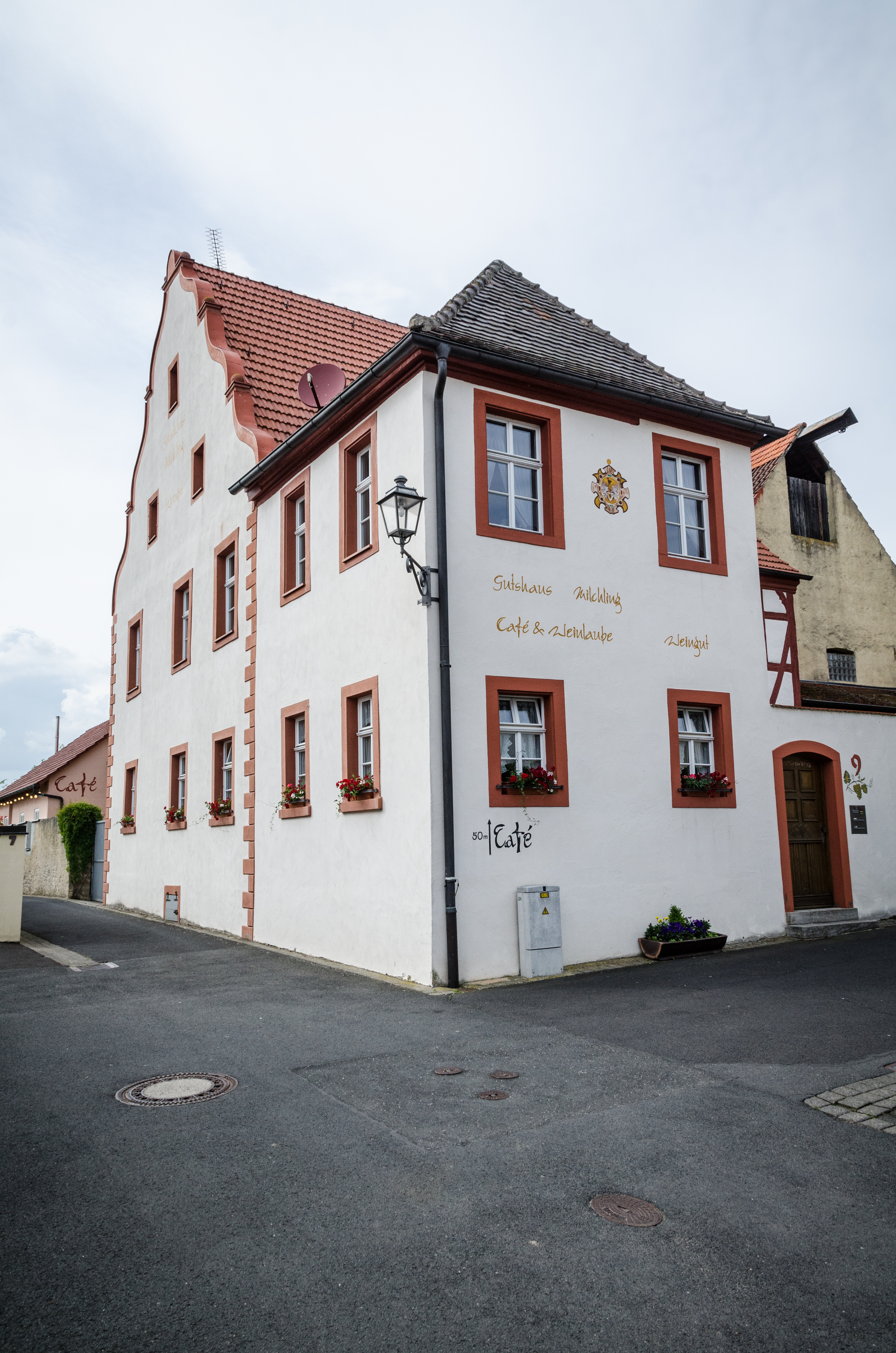 Sommerach, Untere Maintorgasse 9